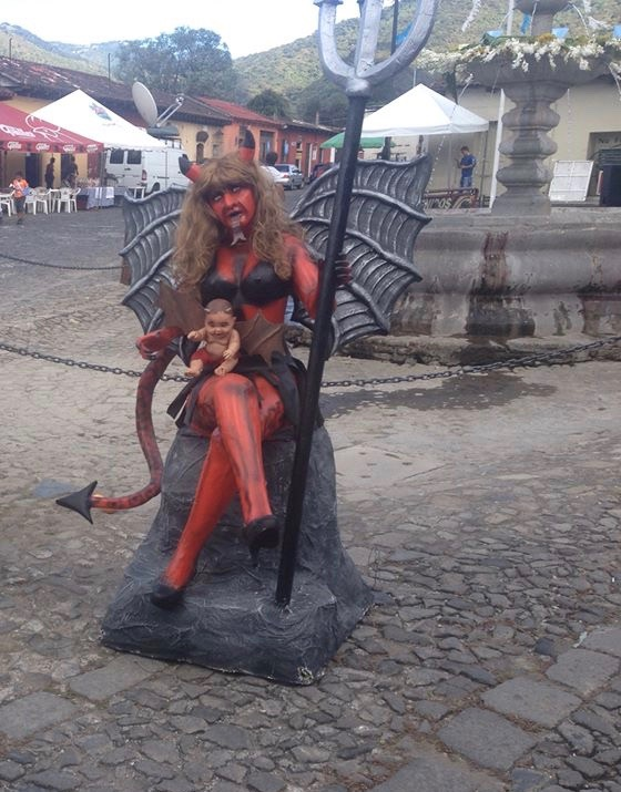 Statue in Antigua, Guatemala, for the Festival of the Burning of the Devil, Quema del Diablo